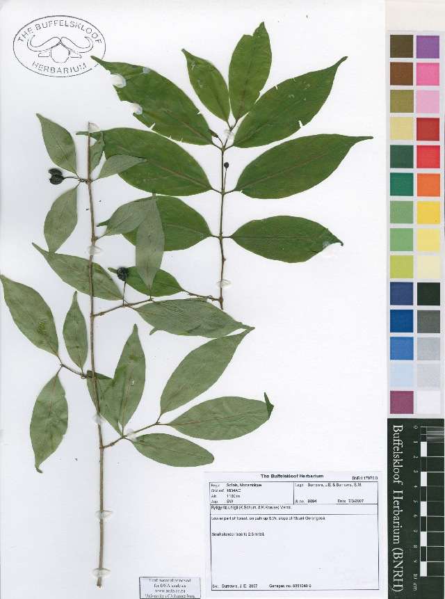 Specimen of Rytigynia uhligii (K.Schum. & K.Krause) Verdc. (Rubiaceae) collected in lower part of forest, on path up S.W. slope of Mount Gorongosa, Sofala, Mozambique